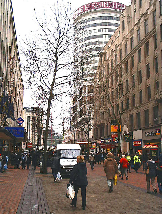 New Street in central Birmingham, one of the city's principal shopping streets and thoroughfares. The circular building in the background is the Rotunda - one of Birmingham's most recognisable landmarks.